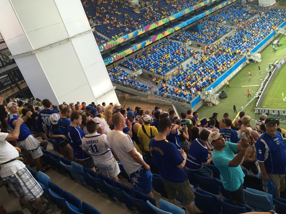 Bosnia-Herzegovina fans at Arena Pantanal, Cuiabá Gate G 21-June-2014 - Match vs Nigeria national team. 2014 FIFA World Cup